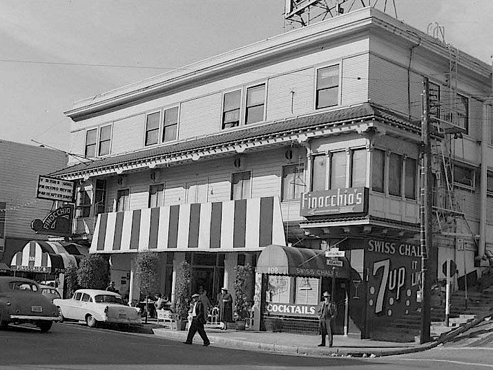 A picture taken in 1958 of Finocchio's club in San Francisco, California